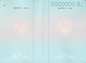 Visa Page of the Vietnamese Passport